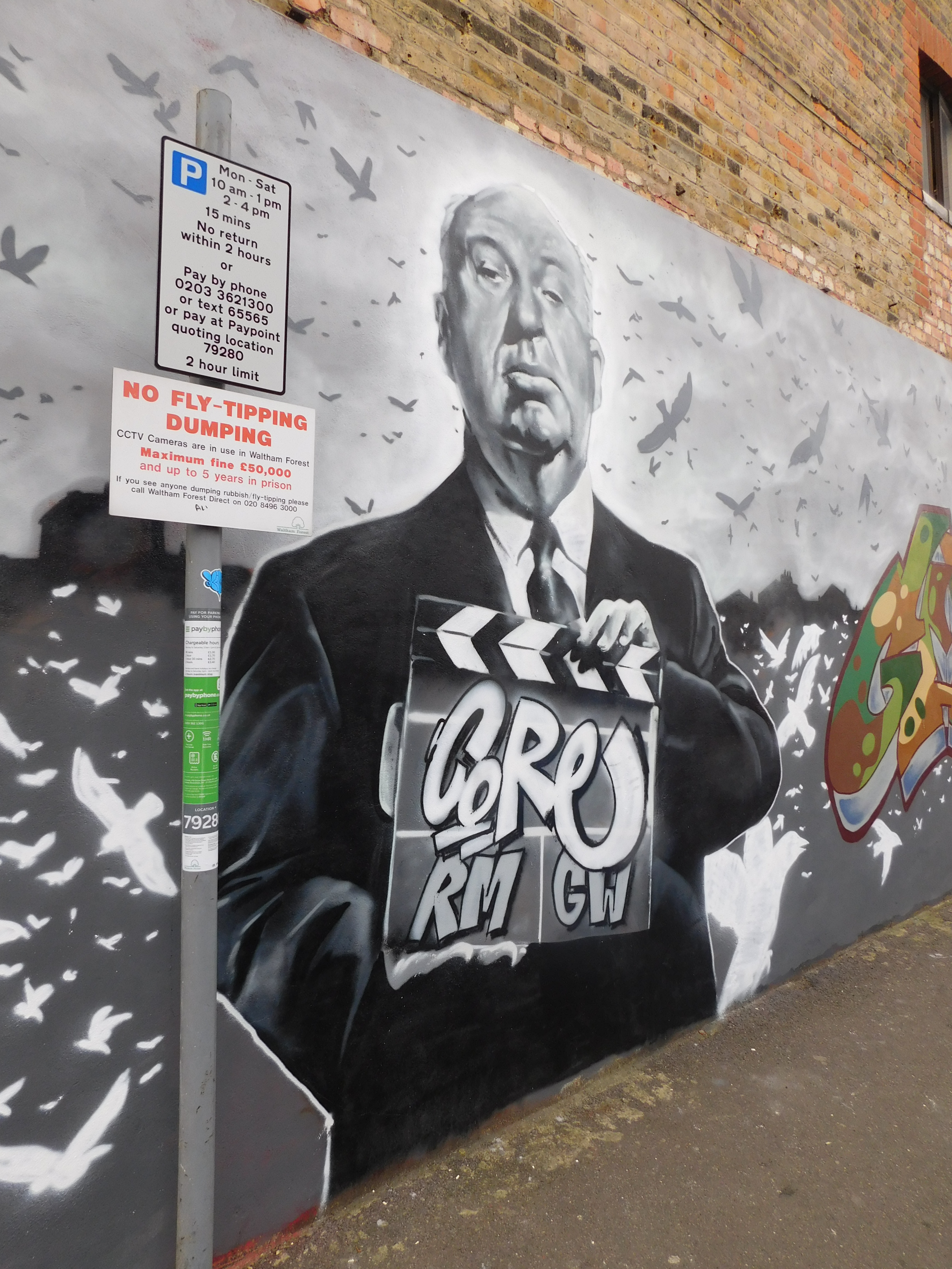 Alfred Hitchcock's Mural in Harrington Road, London (2017)